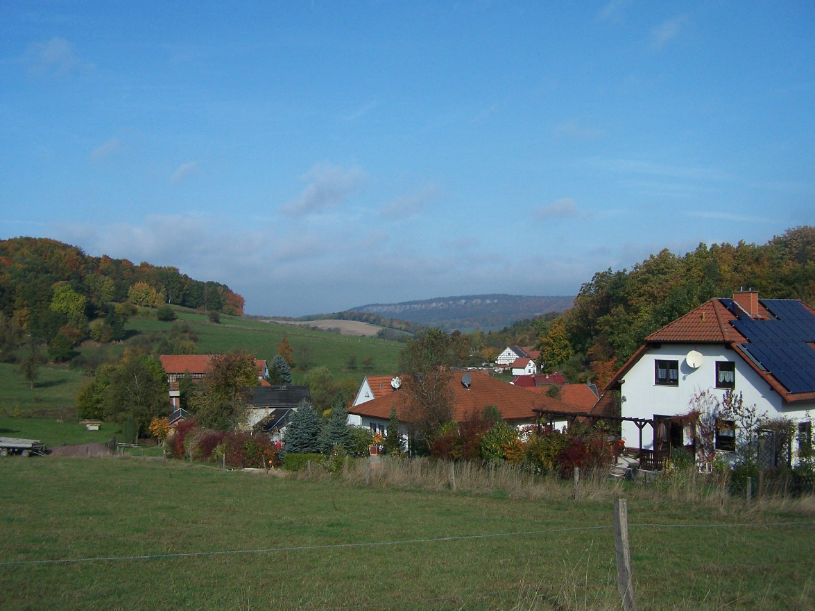 The Deubach village.